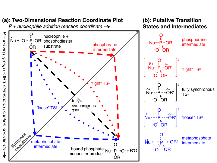 More-O'Ferall-Jenck reaction coordinate diagram illustrating possible mechanisms for nucleotide pyrophosphatase phosphodiesterase (NPP).